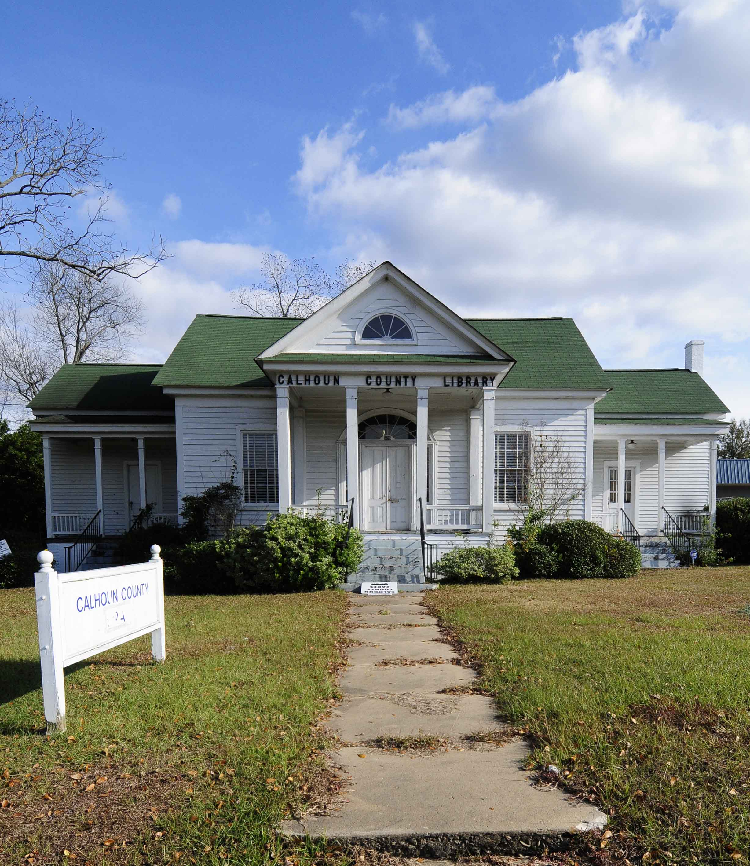 Calhoun County Library, St. Mathews, South Carolina